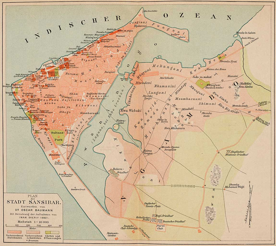 Map of Zanzibar (Plan der Stadt Sansibar). Scale 1:10000